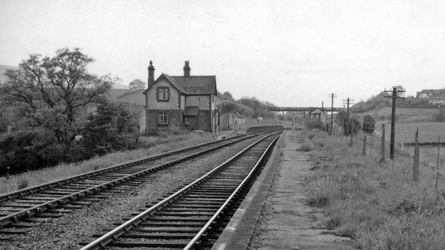 Breidden Station. View westward, towards Buttington and Welshpool; ex-GW&LNW Joint Shrewsbury - Buttington (and Welshpool) main line. The line remains active, but the station had been closed 12/9/60. See also SJ3012 : Breidden Station.